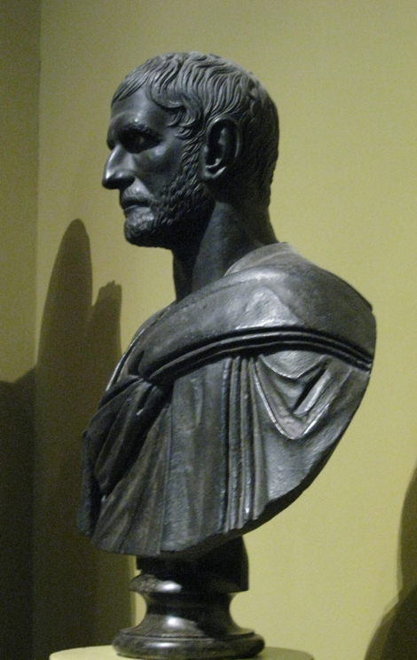 So called "Brutus" (thanks to similarity with the coins of Marcus Junius Brutus). But style is more early (4th/3rd century BC). Cast in the Pushkin museum after original in the Capitoline Museum in Rome.